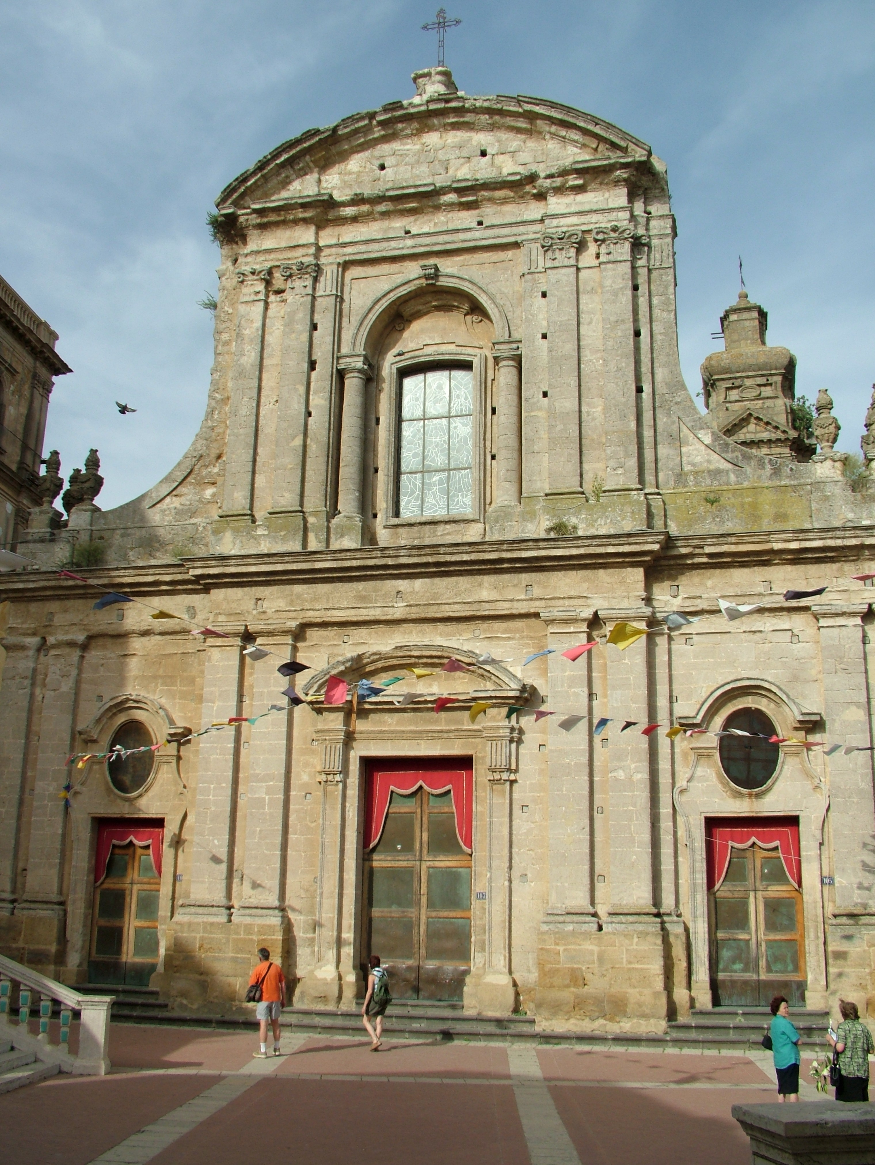 Church of Saint Maria of the Mountain, Caltagirone, Sicily